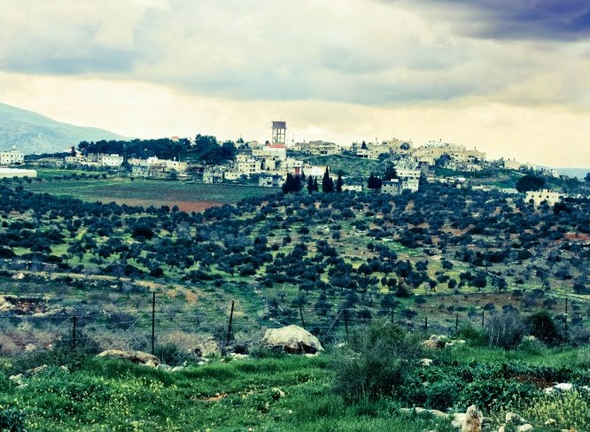 seer in winter